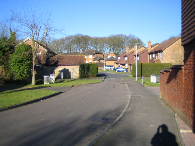 Hook: Wild Herons. Wild Herons is the name of the road in this housing estate with the view showing typical houses.